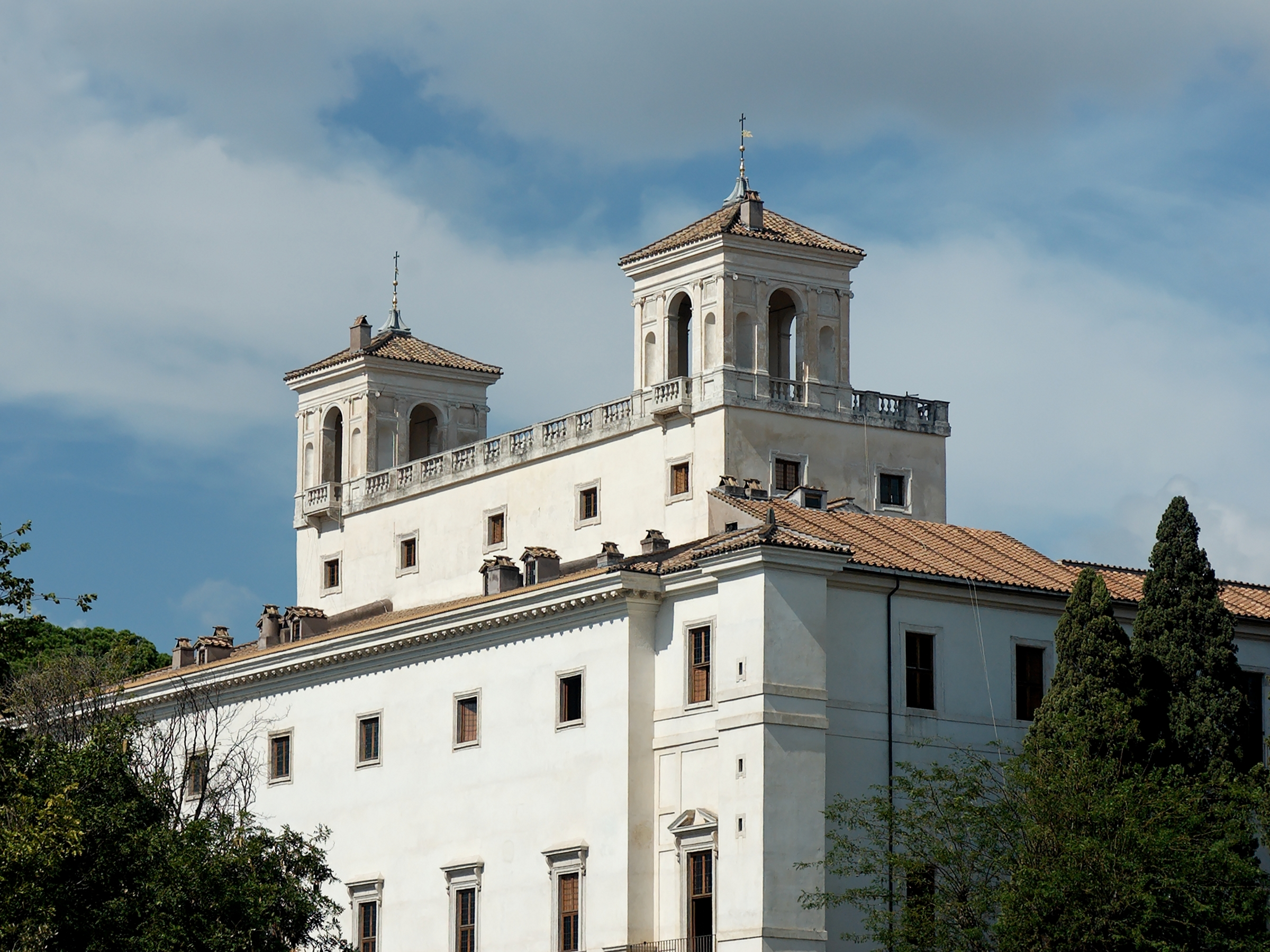 The Villa Medici viewed from the Trinità dei Monti, Rome.